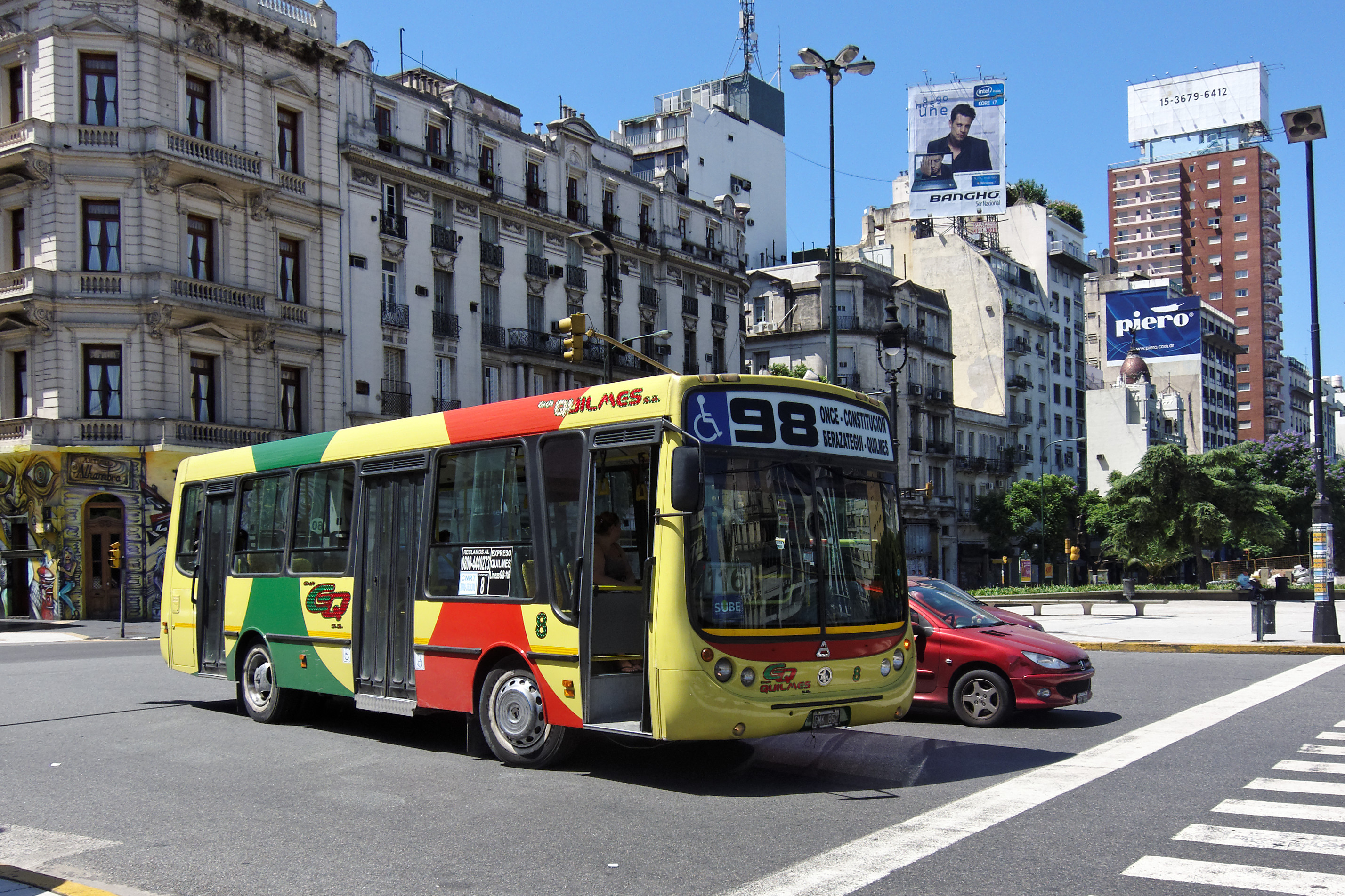 Metalpar Tronador bus (reg. GMK 852, #8), with Agrale chassis, in Buenos Aires, Argentina. Colectivo, line 98, Expreso Quilmes S.A. operator.